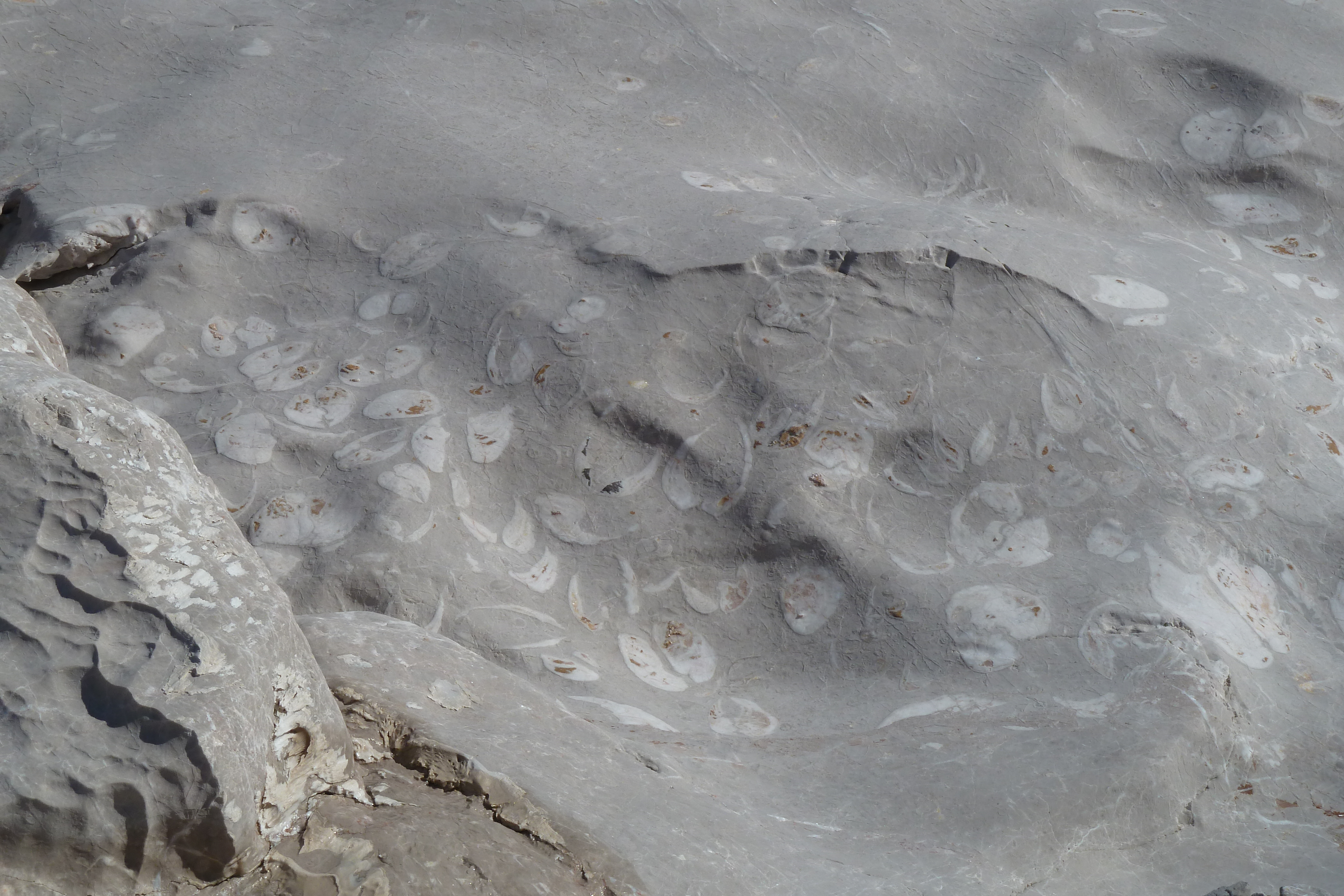 Fossiles of Megalodon, Dachstein, Austria